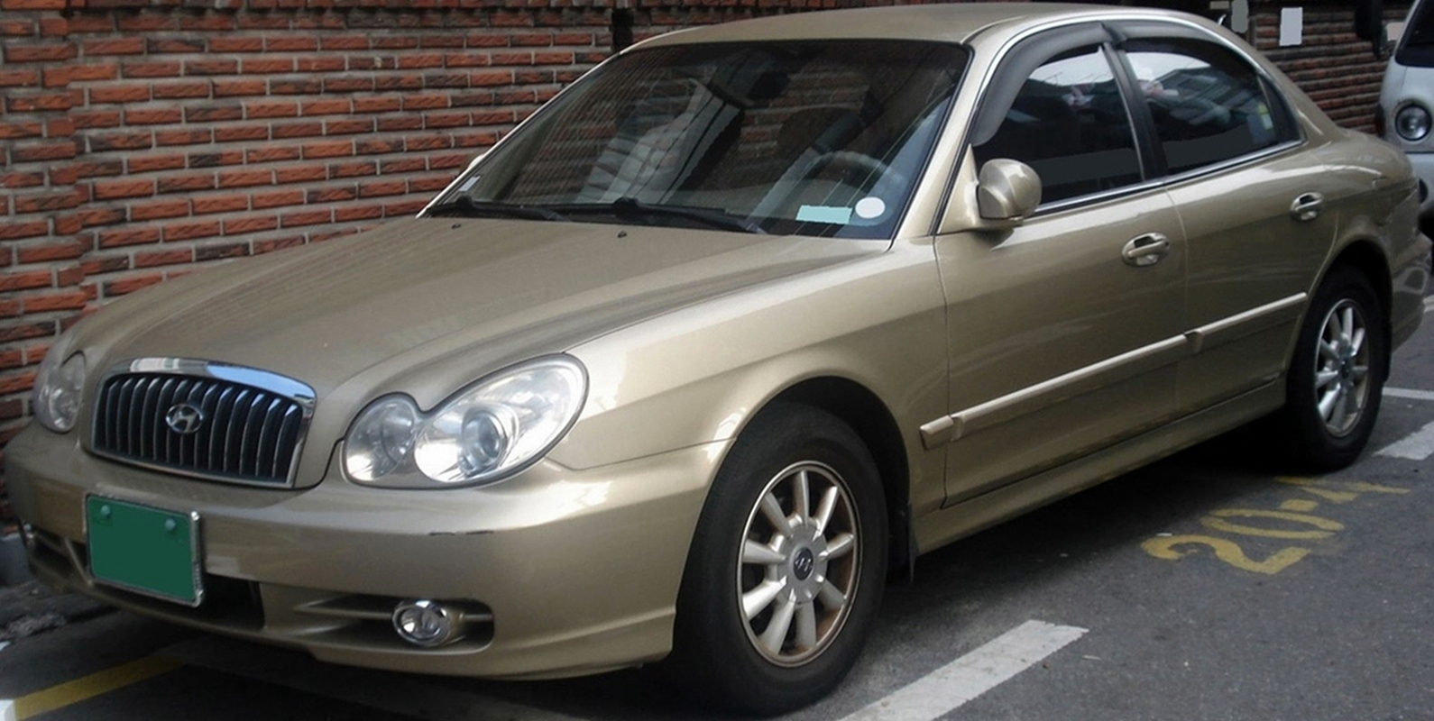 Hyundai New EF Sonata